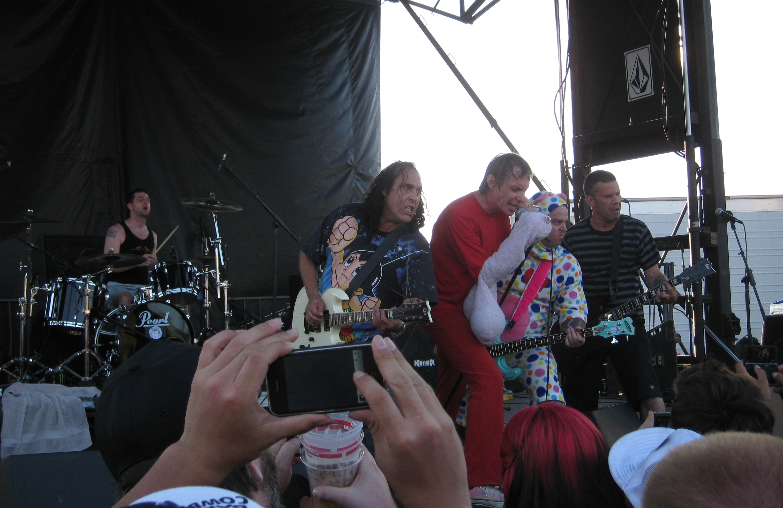 The Dickies performing "If Stuart Could Talk" on the Warped Tour at the Cricket Wireless Amphitheatre in Chula Vista, California on August 10, 2010. Left to right: Travis Johnson, Stan Lee, Leonard Graves Phillips, Greg Hanna, and Dave Teague. Note Phillips' use of the "Stuart" hand puppet in the shape of a penis and scrotum.